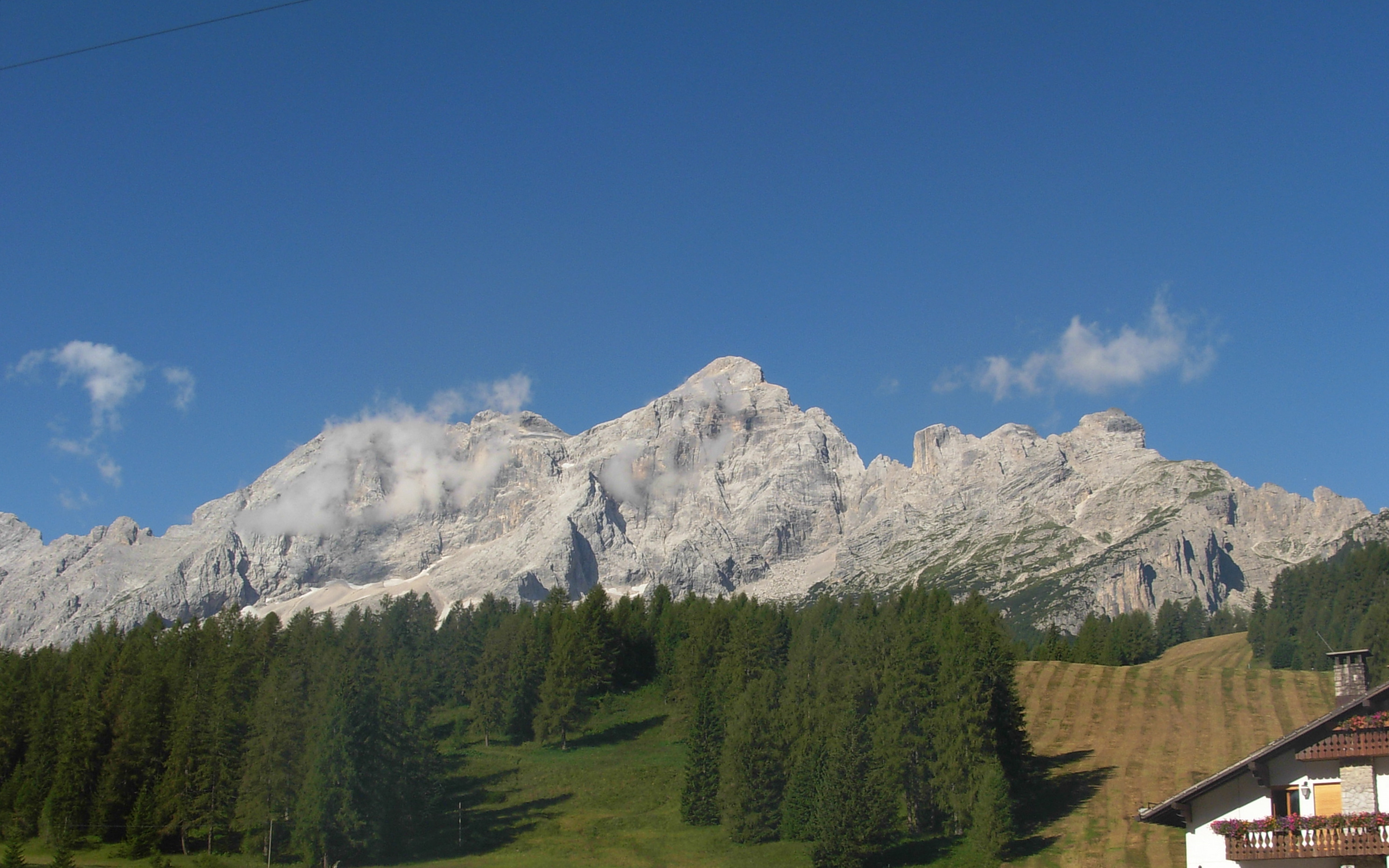 Civetta group from the eastern side